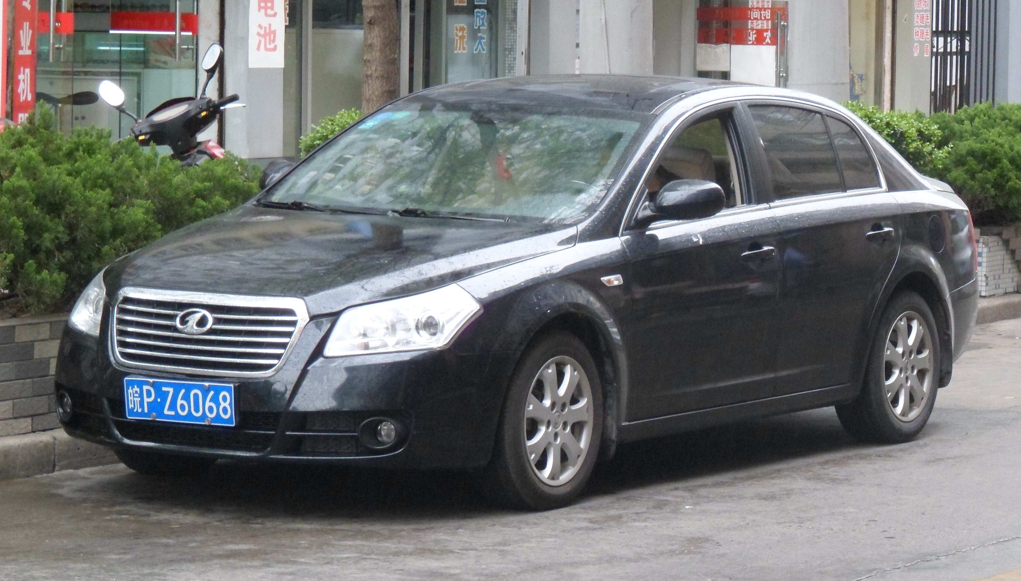 Besturn B70 photographed in Shanghai, China.